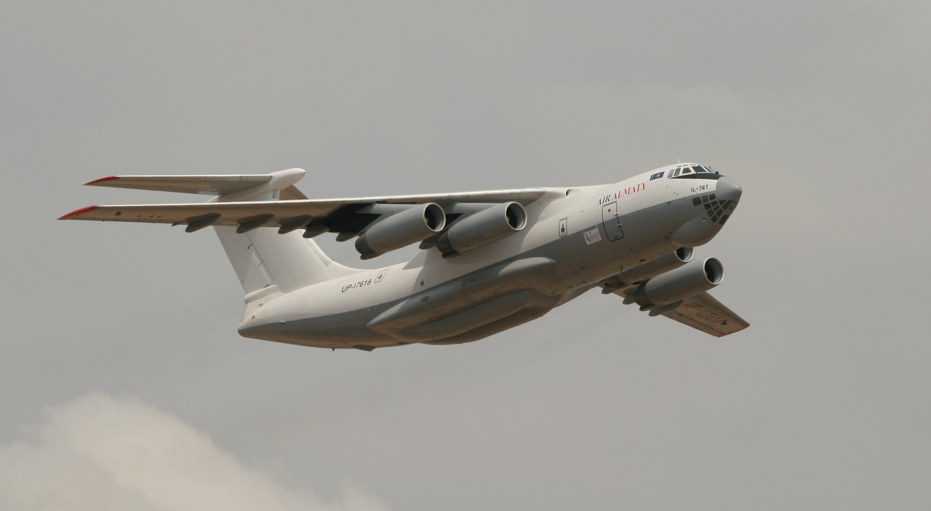 Air Almaty Ilyushin Il-76